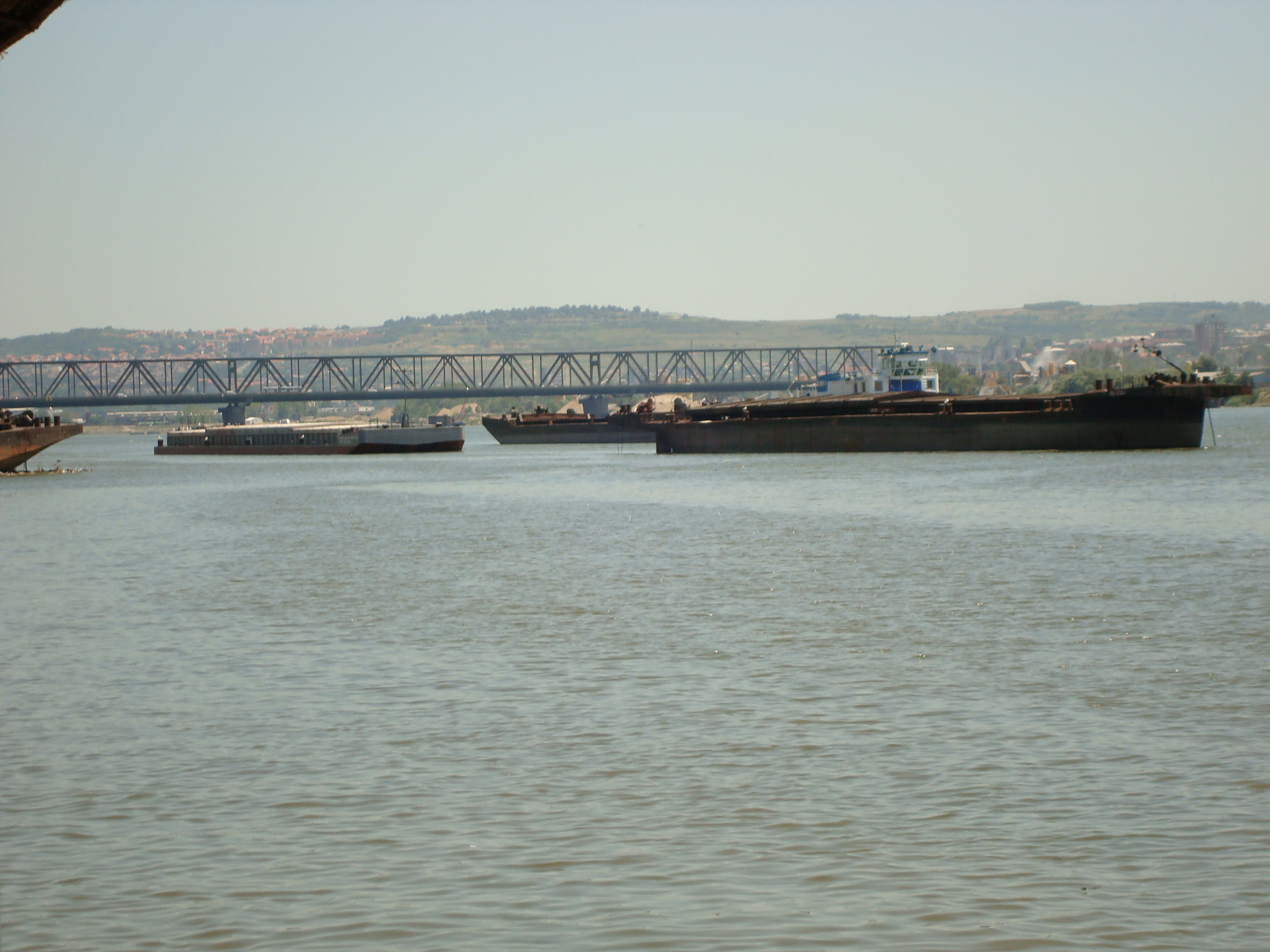 Pancevo Bridge over Danube river, Belgrade, Serbia.